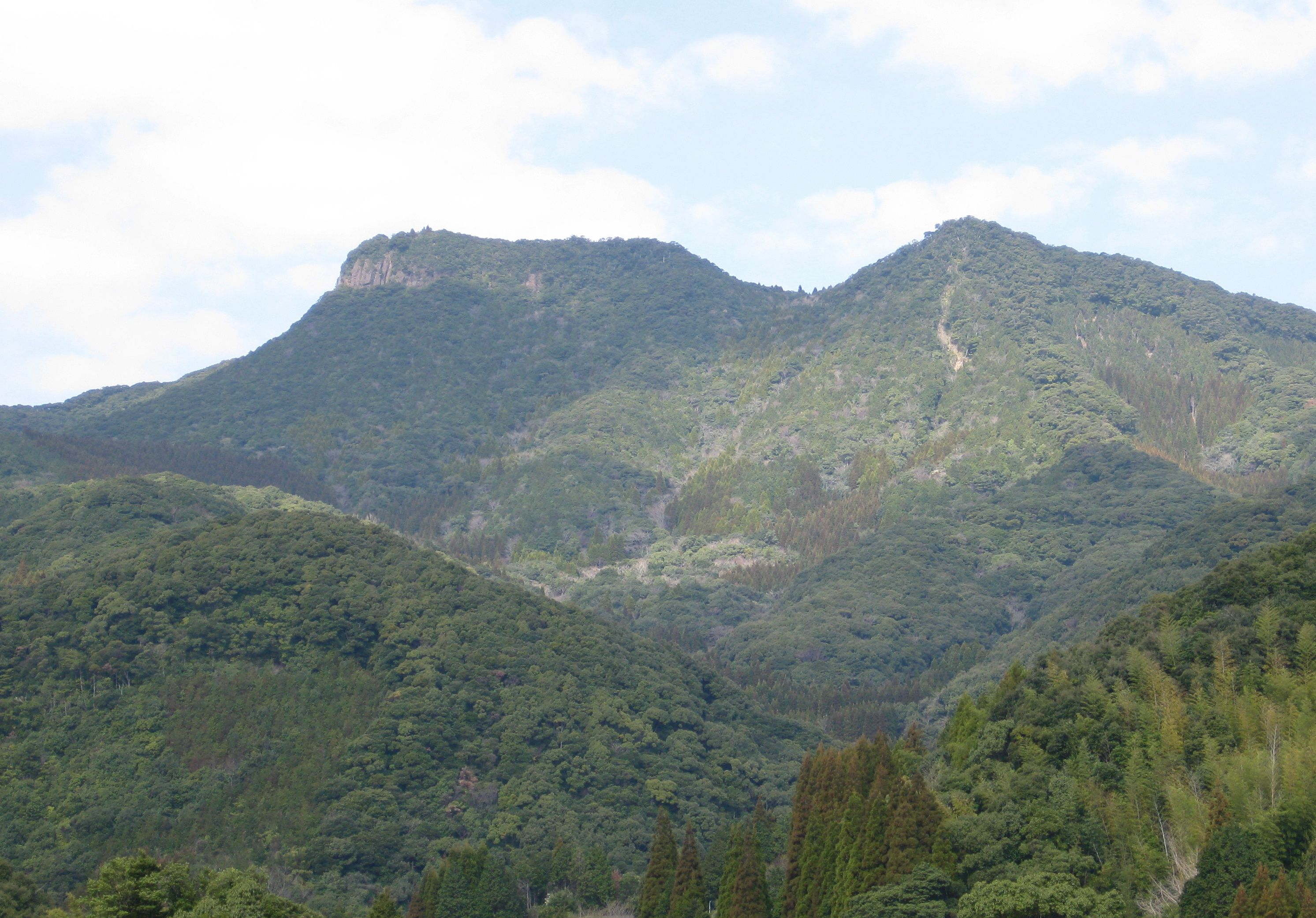 Mount Kanmuri's Nishidake peak seen from the SSE, in Ichikikushikino, Kagoshima, Japan